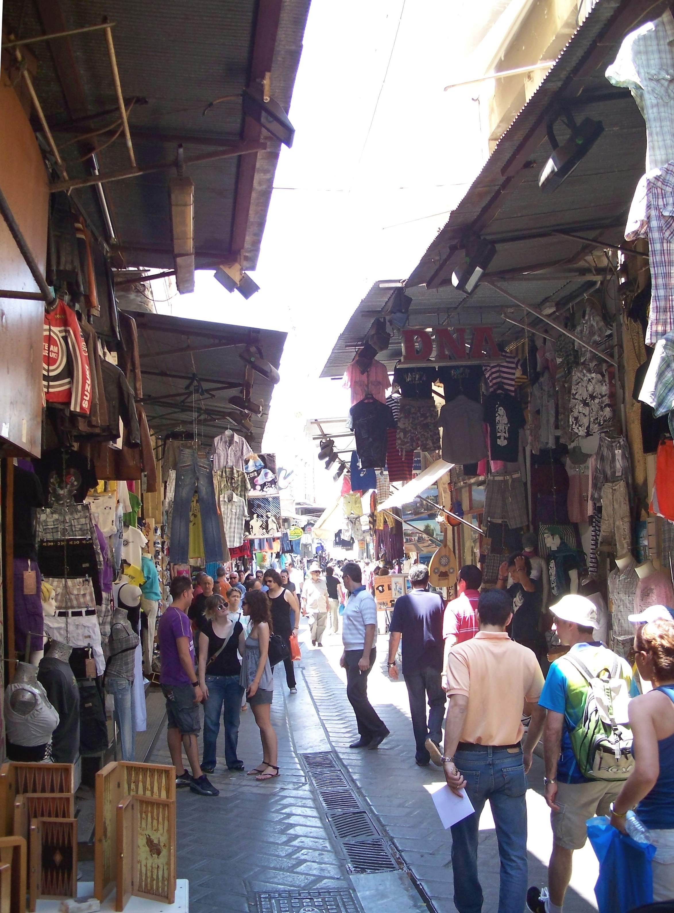 The flea market in Monastiraki